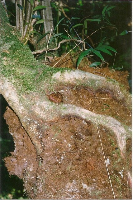 Elaeocarpus holopetalus growing on Dicksonia antarctica at Devil's Creek, Tantawangalo, South East Forest, National Park, Australia